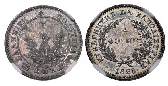 GREECE, First Hellenic Republic. Ioannis Antonios Kapodistrias. Governor, 1828-1831. AR Phoenix. (23mm, 12 h). Aegina mint. Dated 1828. Phoenix rising from flames; cross above, rays to left / Denomination within wreath.